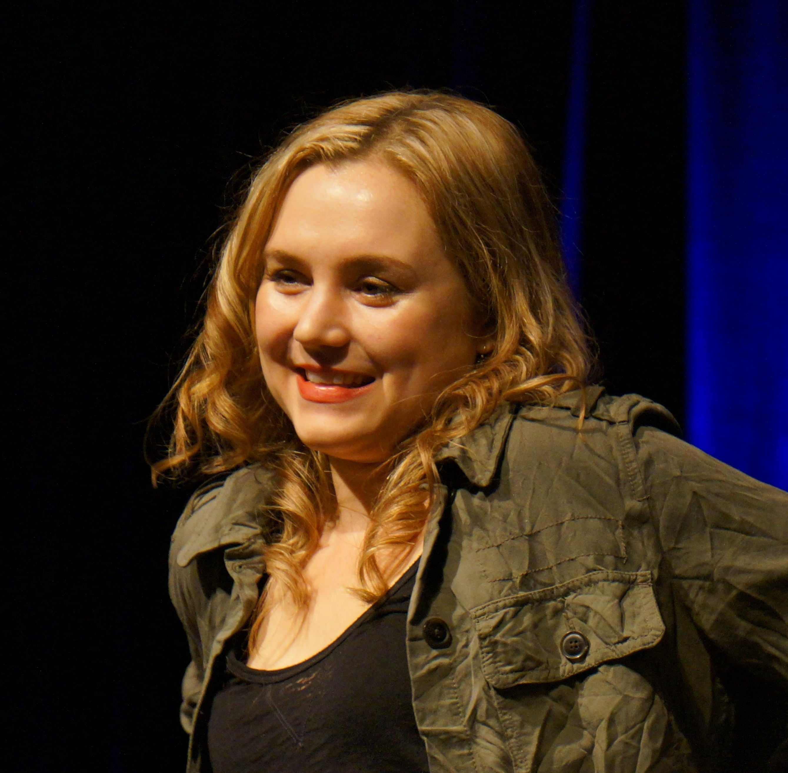 Rachel Miner at Salute to Supernatural Chicago 2012